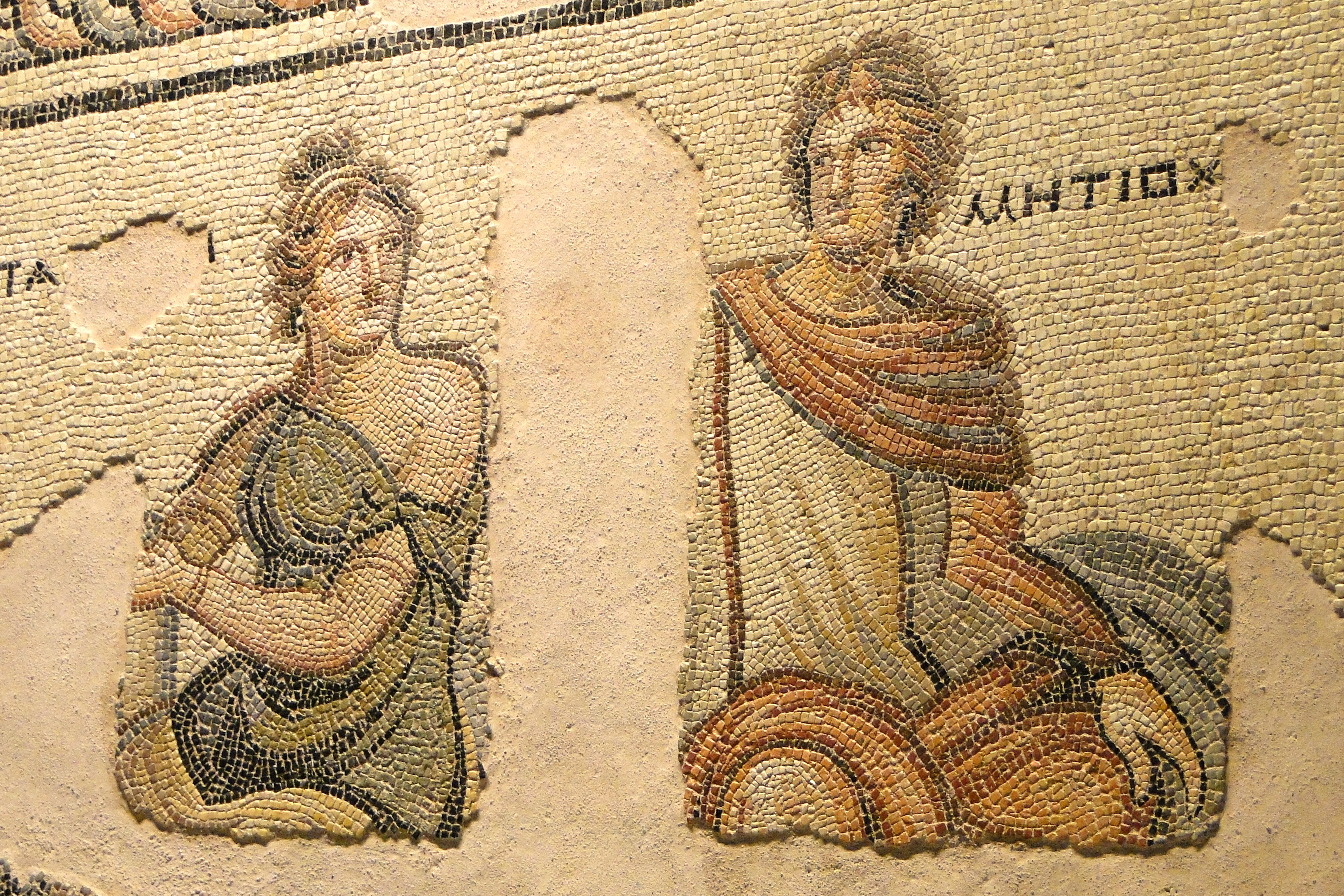 Mosaic of Metiochus and Parthen - 2-3 Century - Zeugma Mosaic Museum - Gaziantep - Turkey